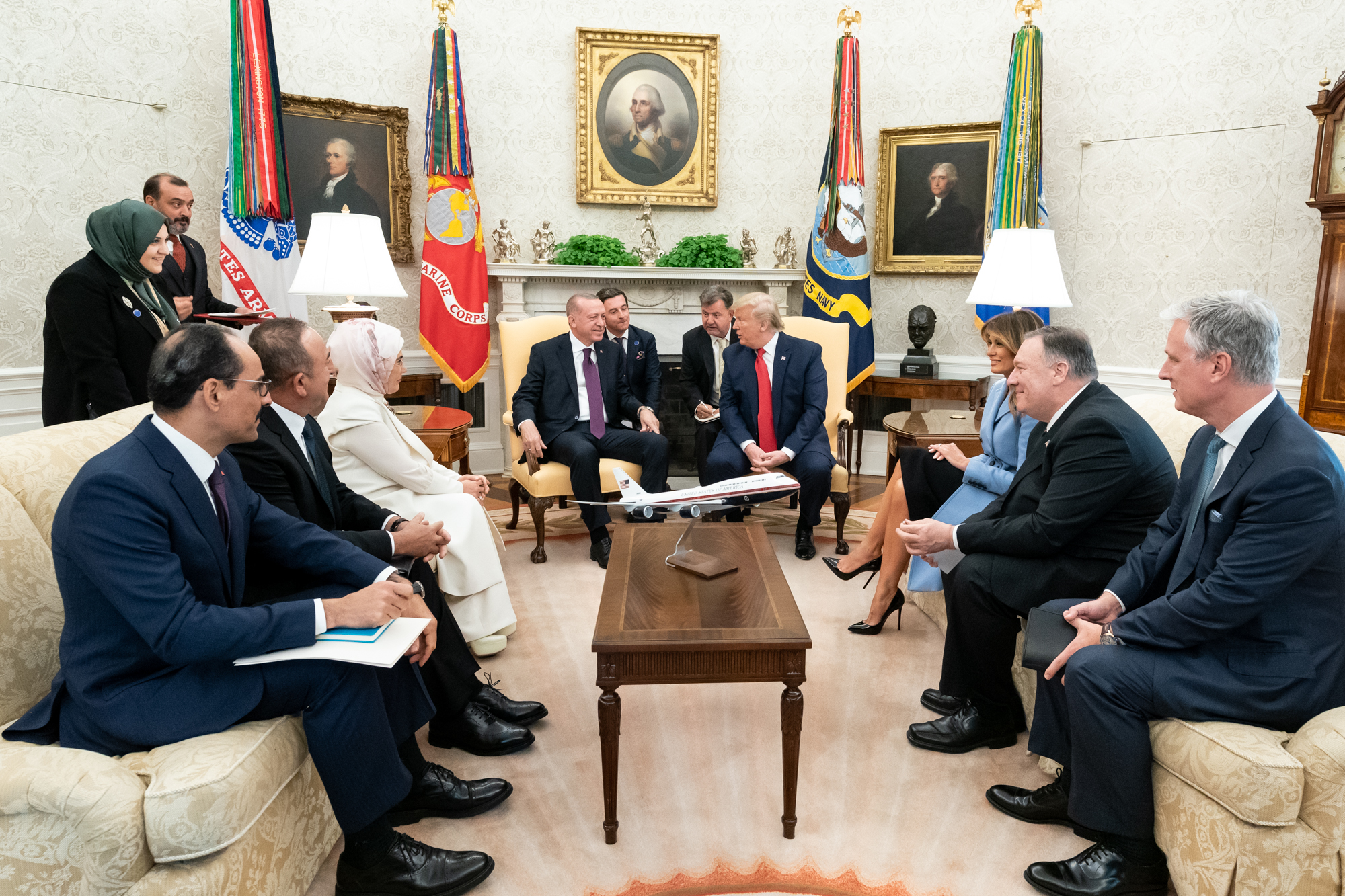 President Donald J. Trump and First Lady Melania Trump meet with Turkish President Recep Tayyip Erdogan and his wife Mrs. Emine Erdogan Wednesday, Nov. 13, 2019, in the Oval Office of the White House. (Official White House Photo by Andrea Hanks)